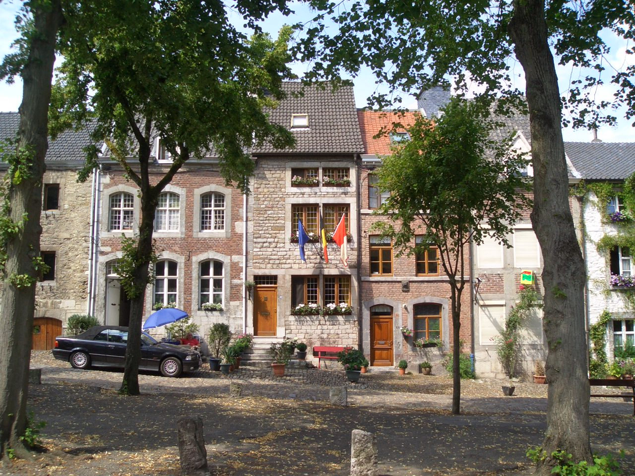 Place Saint-Goerges in limbourg, Belgium